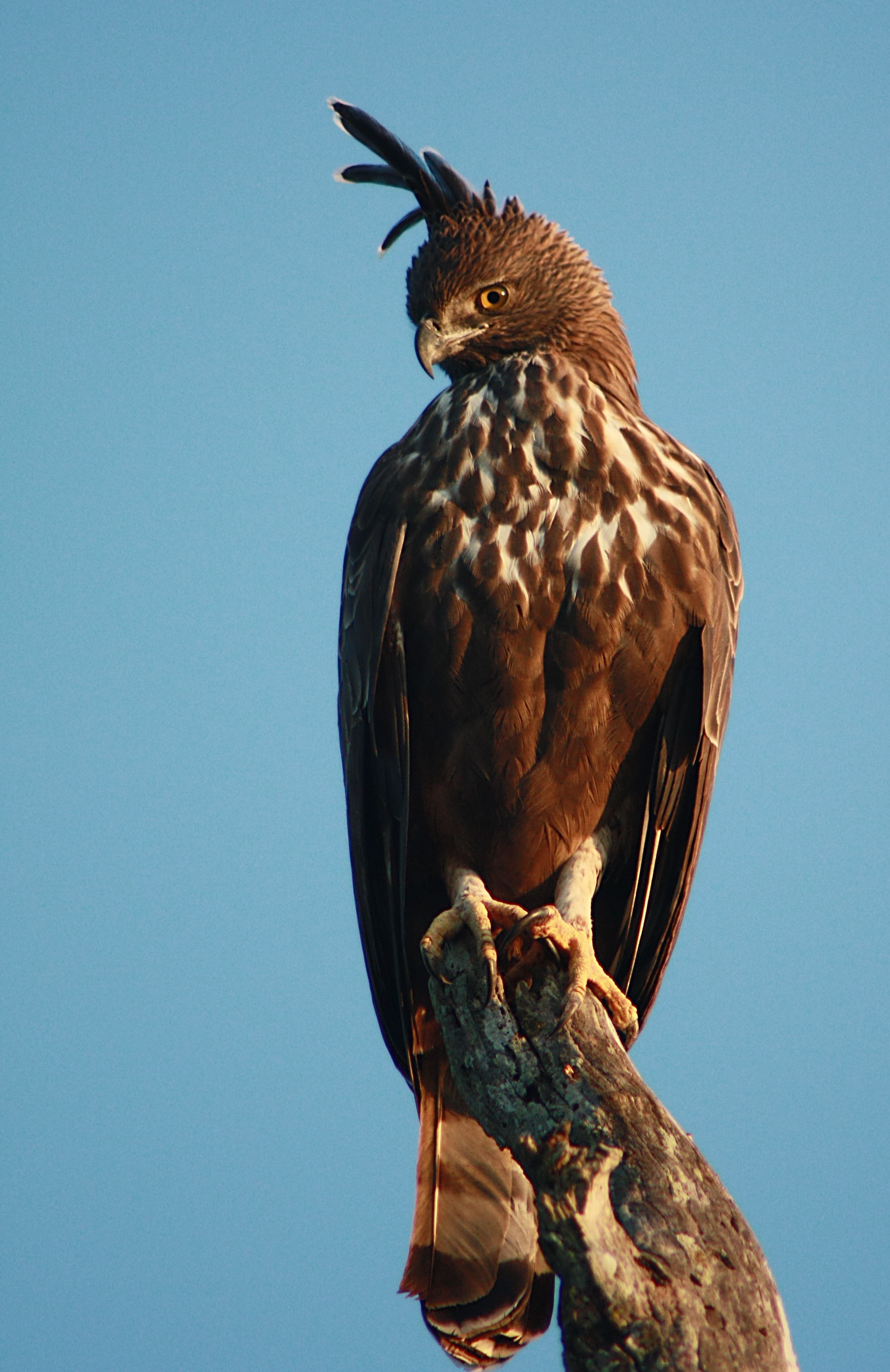 Changeable Hawk Eagle, found in Bandiupur National Forest,Karnataka, India